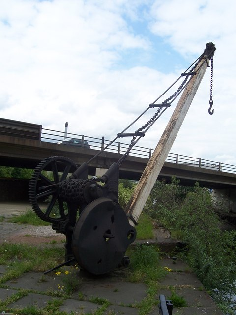 Wharf-side crane. Hand powered wharf-side crane on the Rotherham Cut.